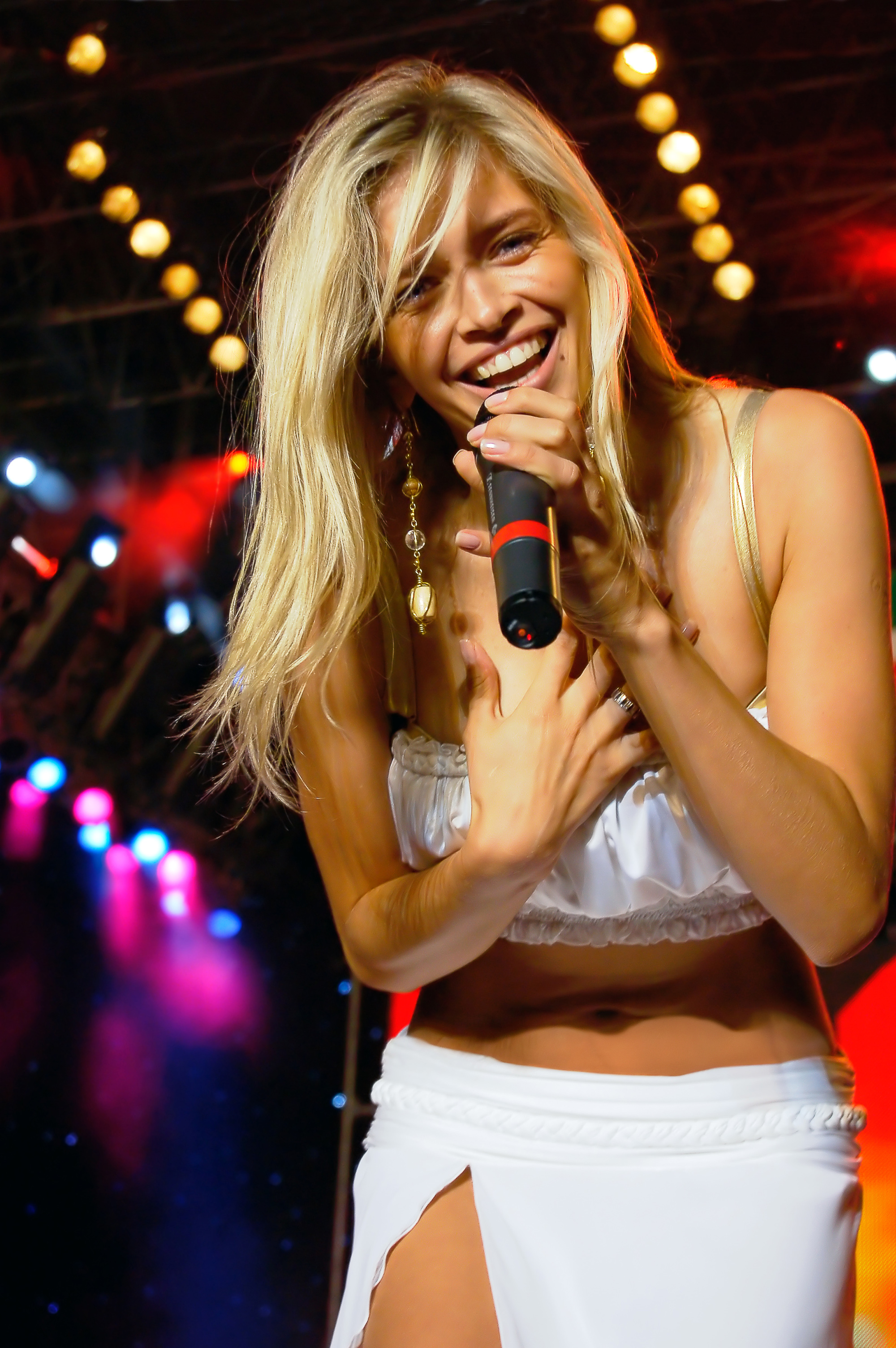 Vera Brejneva at the concert